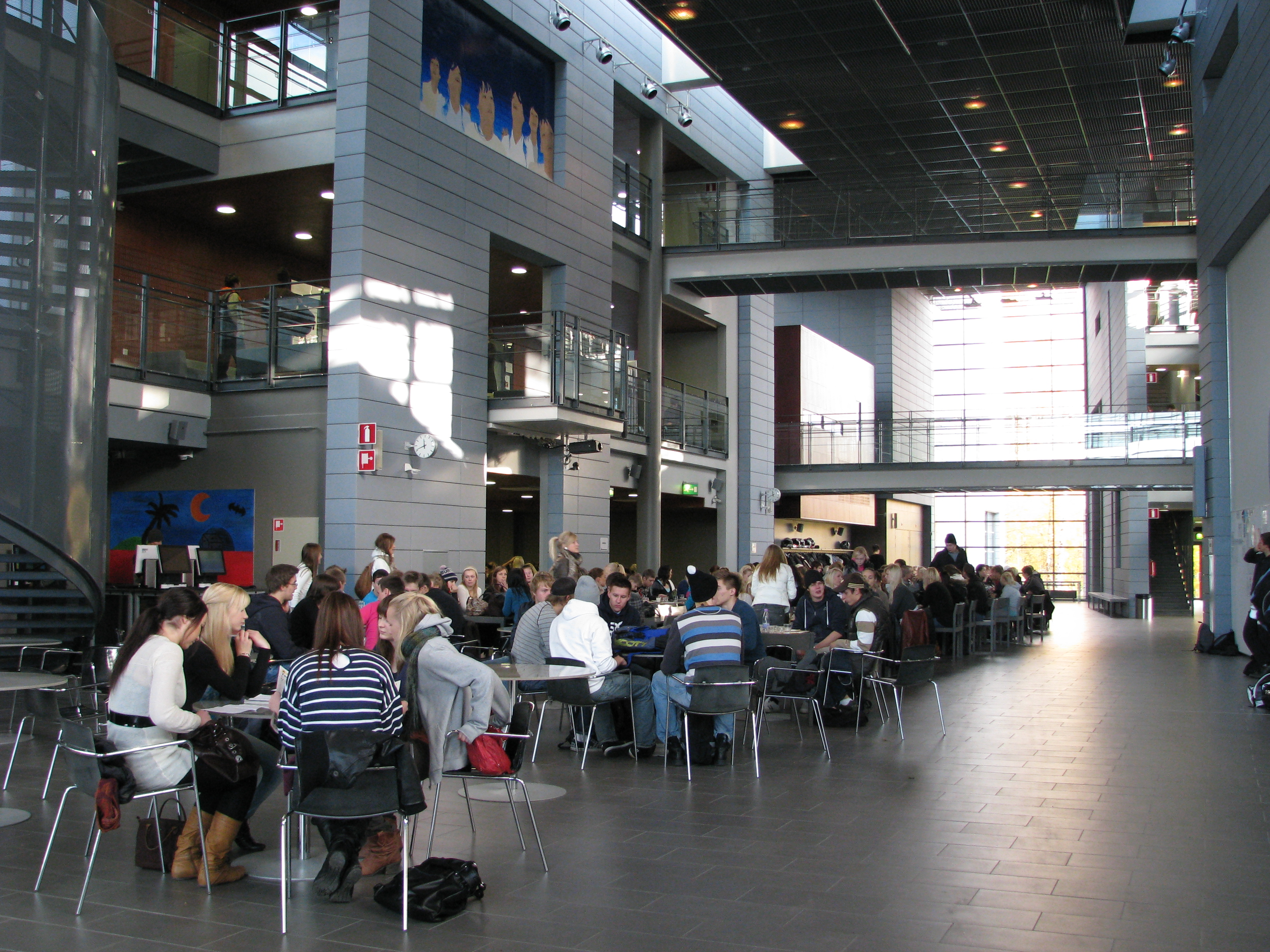 Sampo Upper Secondary School.